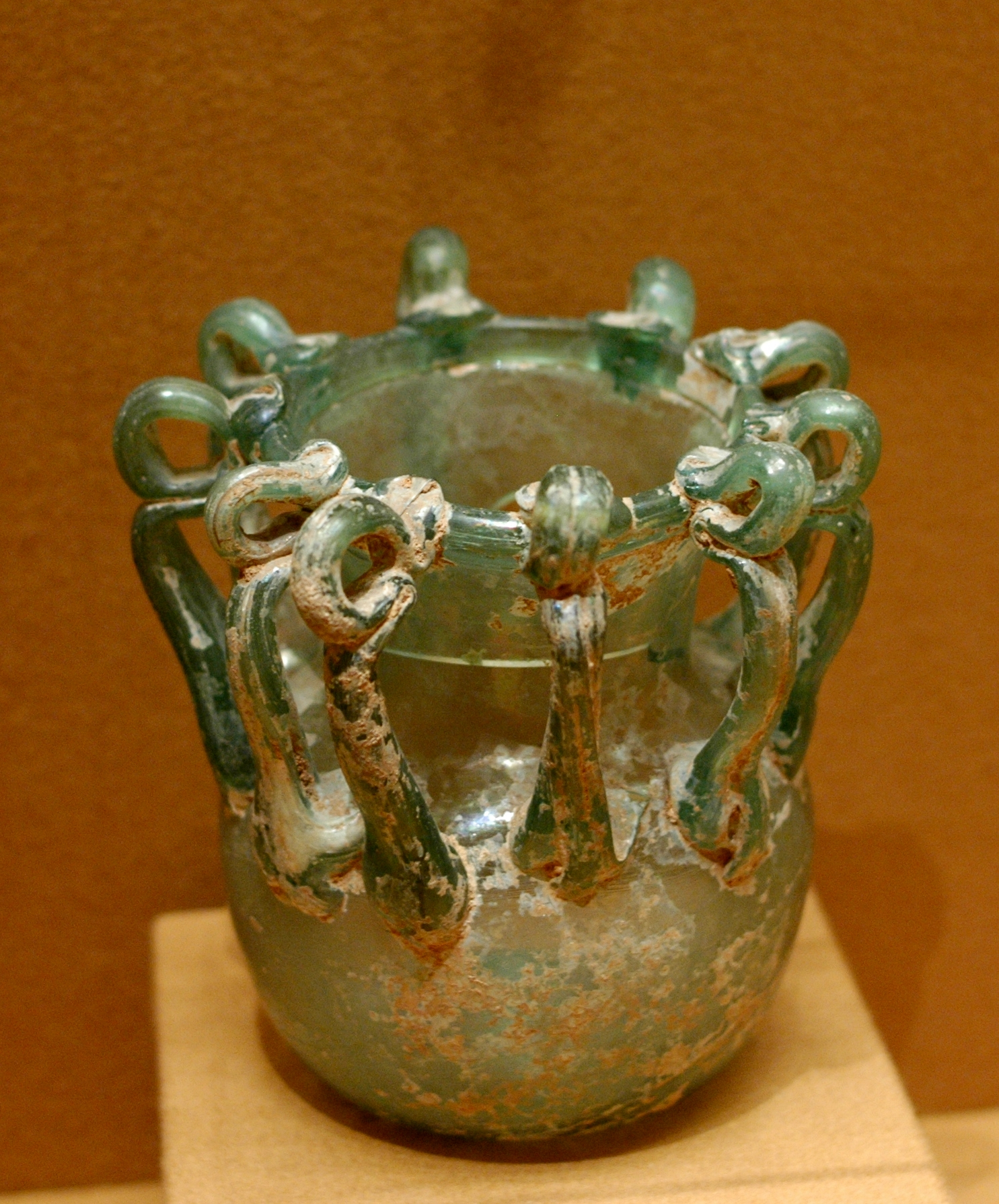 Vase with multiple handles.